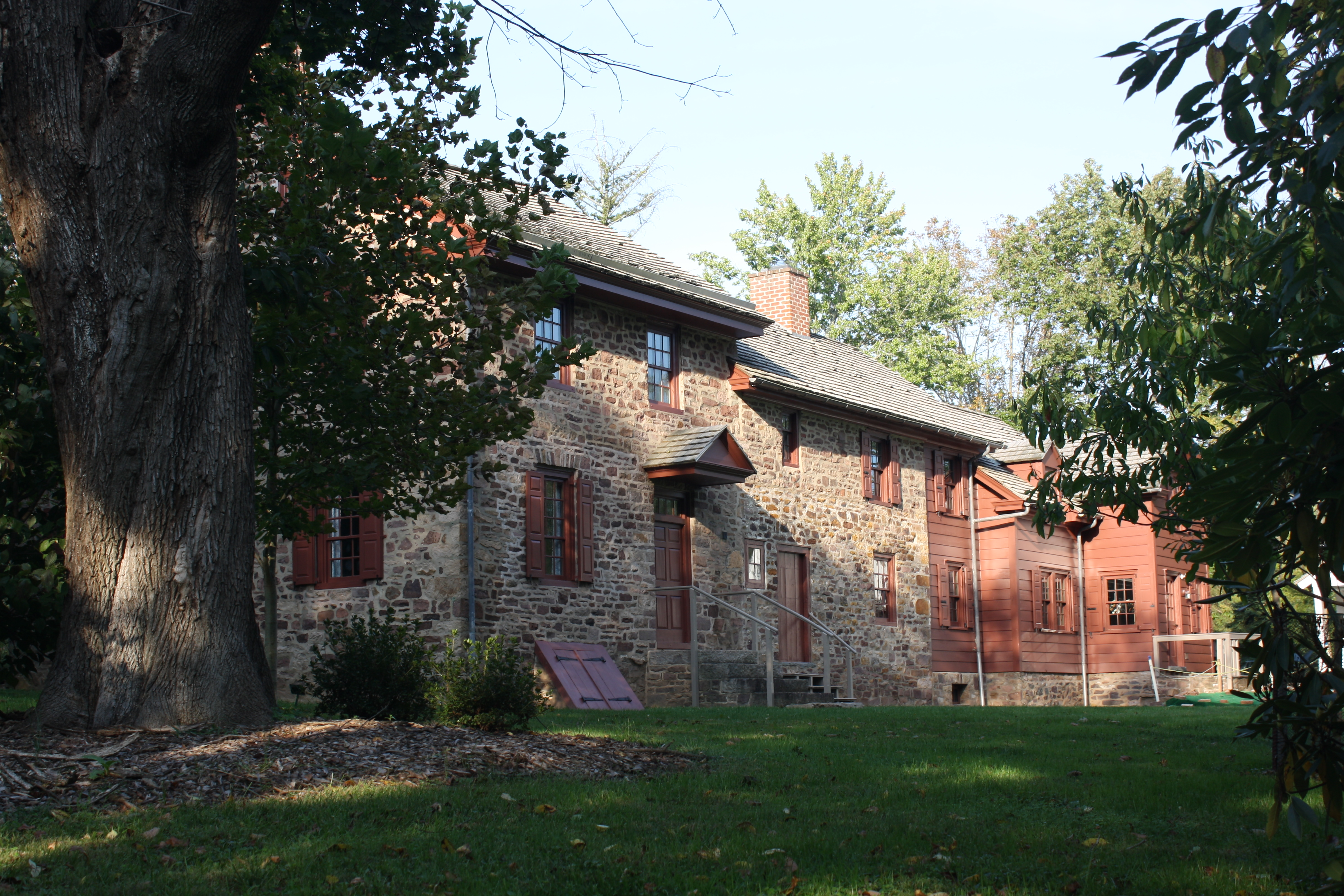 Moland House